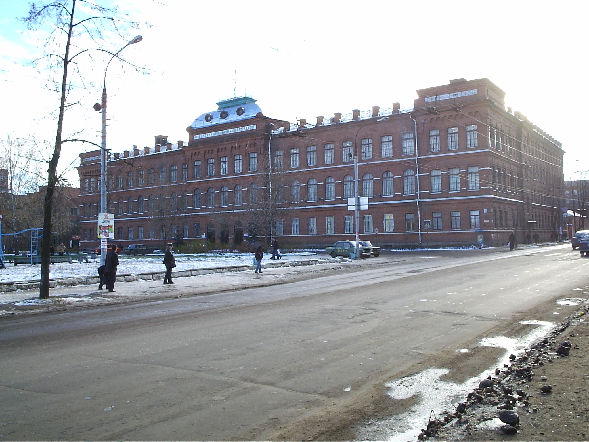 Rybinsk Aviation Technicum building (Rybinsk, Yaroslavl Oblast, Russia).